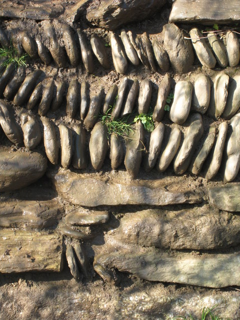 Cornish hedge at the rear of Porth Sawsen beach The Cornish hedge is found throughout the county as a field boundary and consists of stones built up in an earth fill, grading from very large stones at the base to smaller ones at the top, as seen here. This hedge is quite new and they frequently become totally overgrown with vegetation so that the stonework is not visible. The skill of hedge-building still flourishes, mainly thanks to the National Trust, as in this instance, and the County Council, which builds hedges alongside new roads.